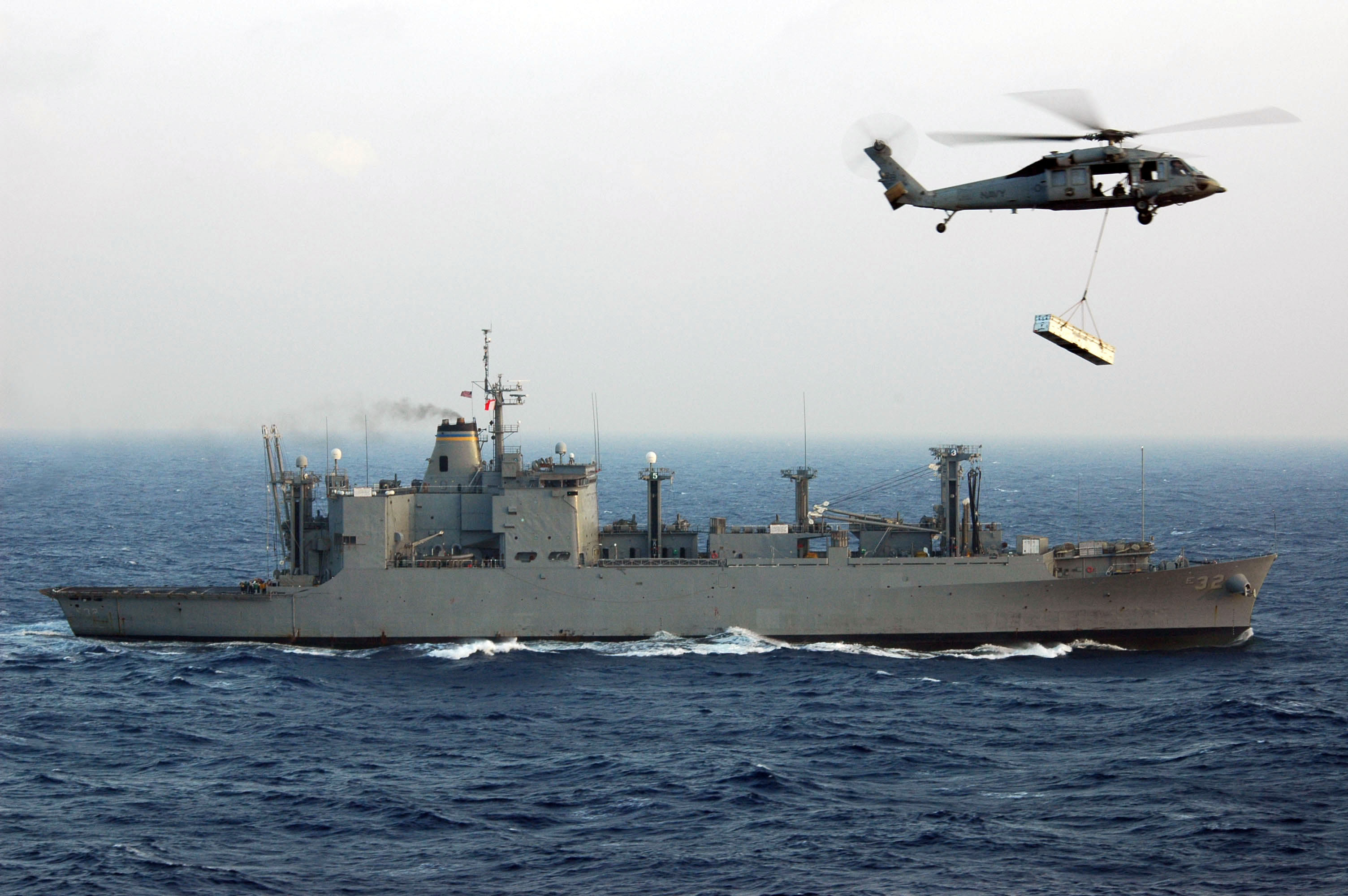 Pacific Ocean (Nov. 29, 2005) – An MH-60S Seahawk helicopter transports supplies from the Military Sealift Command (MSC) ammunition ship USNS Flint (T-AE-32) to the conventionally powered aircraft carrier USS Kitty Hawk (CV-63) during a vertical replenishment. Kitty Hawk and embarked Carrier Air Wing Five (CVW-5) are currently conducting operations in the Western Pacific Ocean.